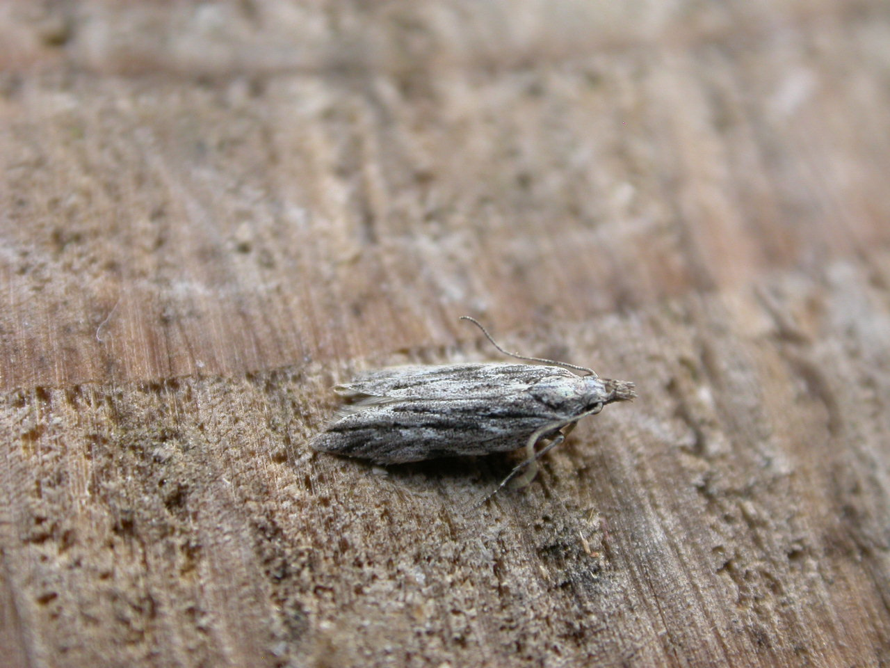 Anarsia lineatella, to MV light, Hellerup, Denmark, 2 August 2003